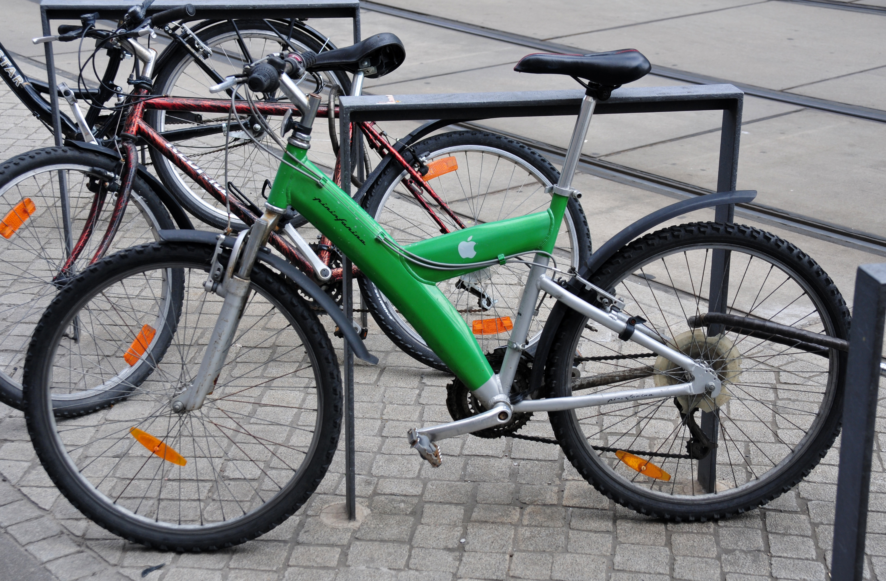 bicycle